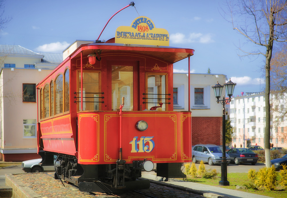 A monument to the first tram in Viciebsk featuring an old tram, Belarus